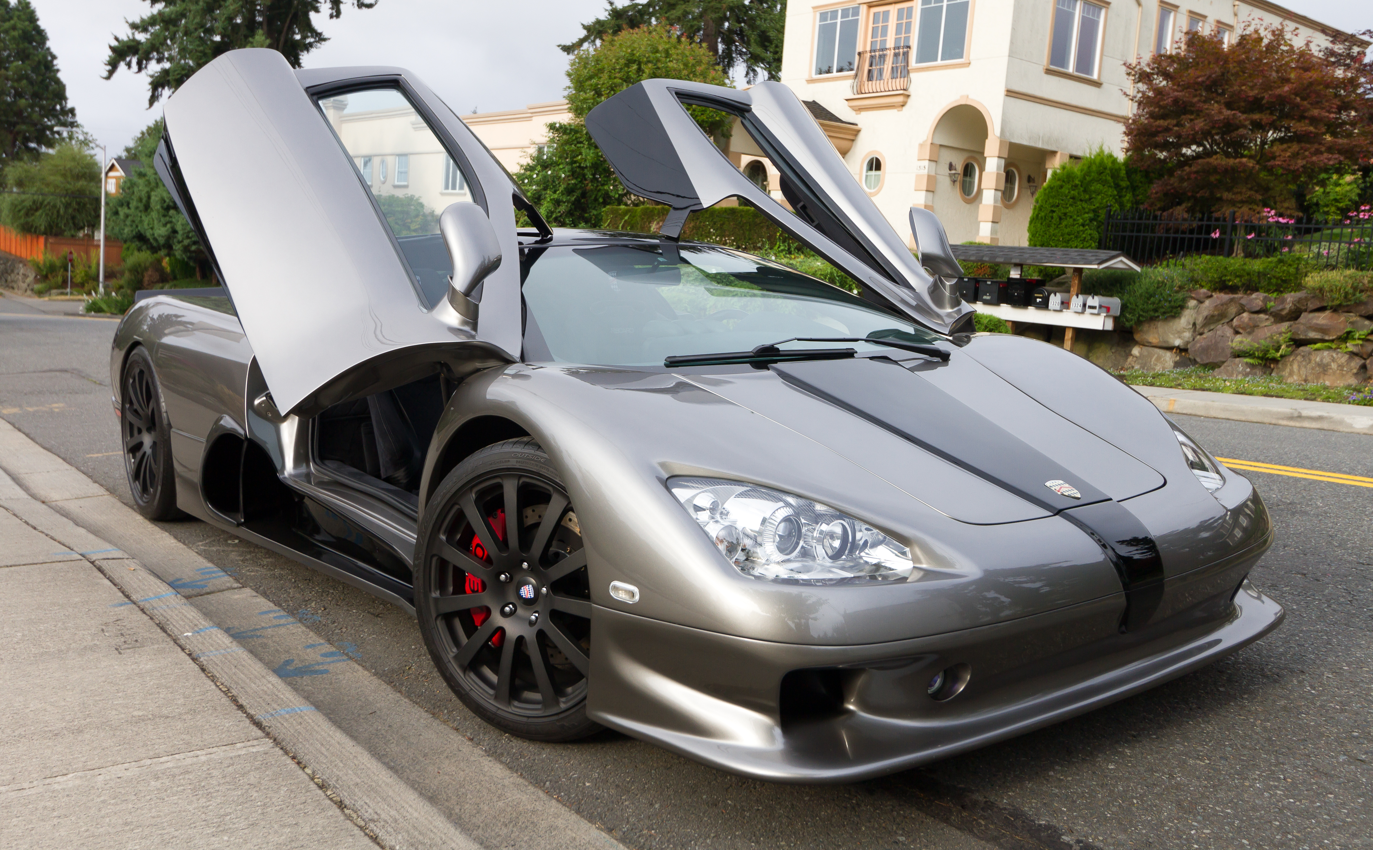 Ultimate Aero TT that I photographed in Redmond, WA.